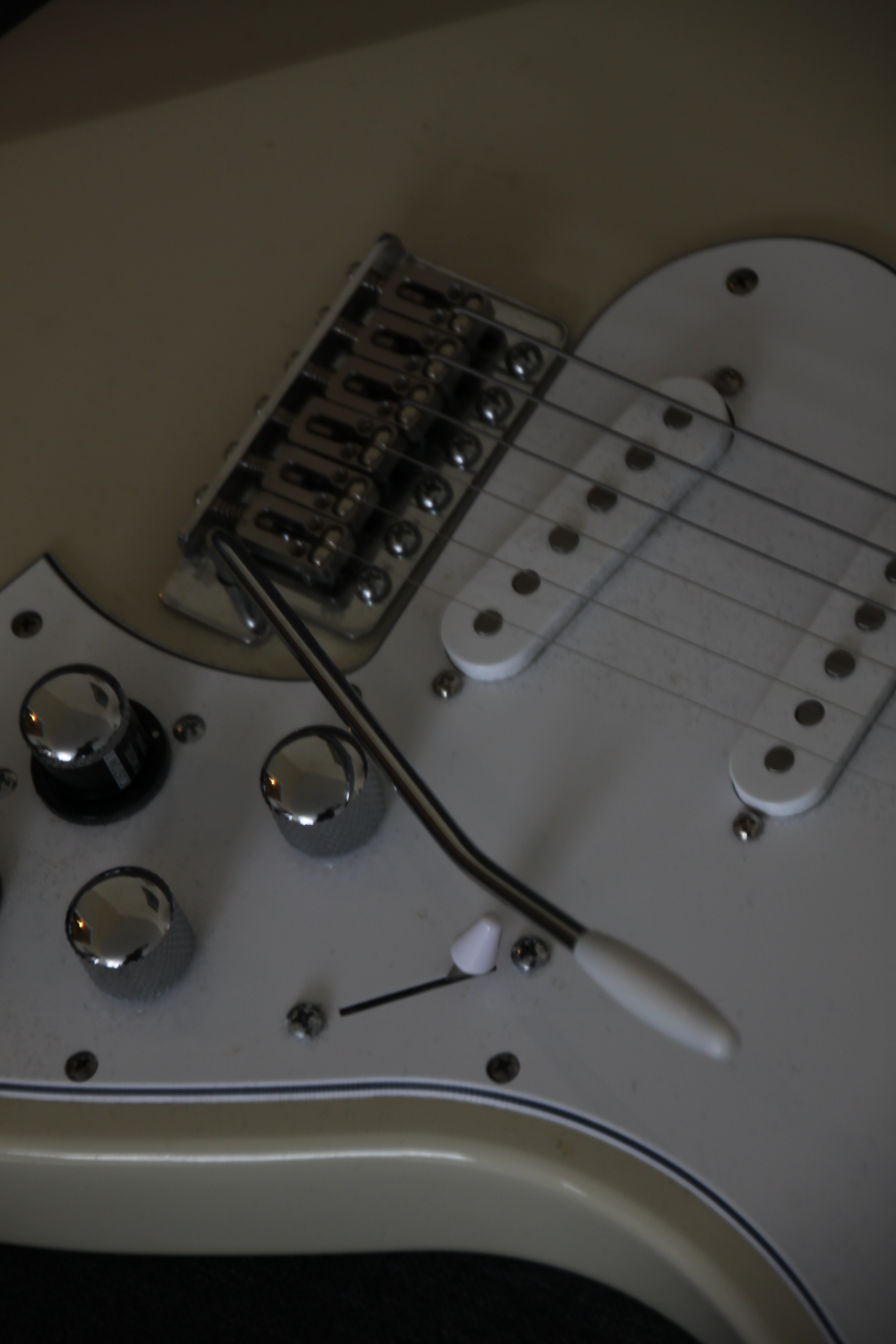 Whammy bar on Line 6 Variax -electric guitar.